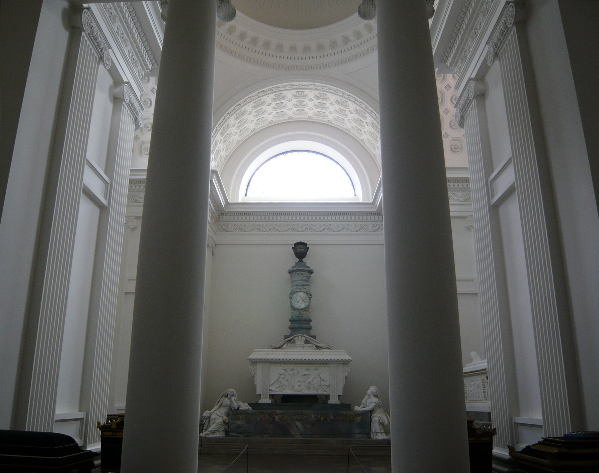 Entrance to Frederick V's chapel. In the centre stands the sarcophagus of Frederick V of Denmark (1723-1766). The two female statues represents the grieving Denmark and Norway.